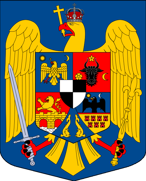 Small Coat of arms of Kingdom of Romania (between June 23, 1921 and December 30, 1947)